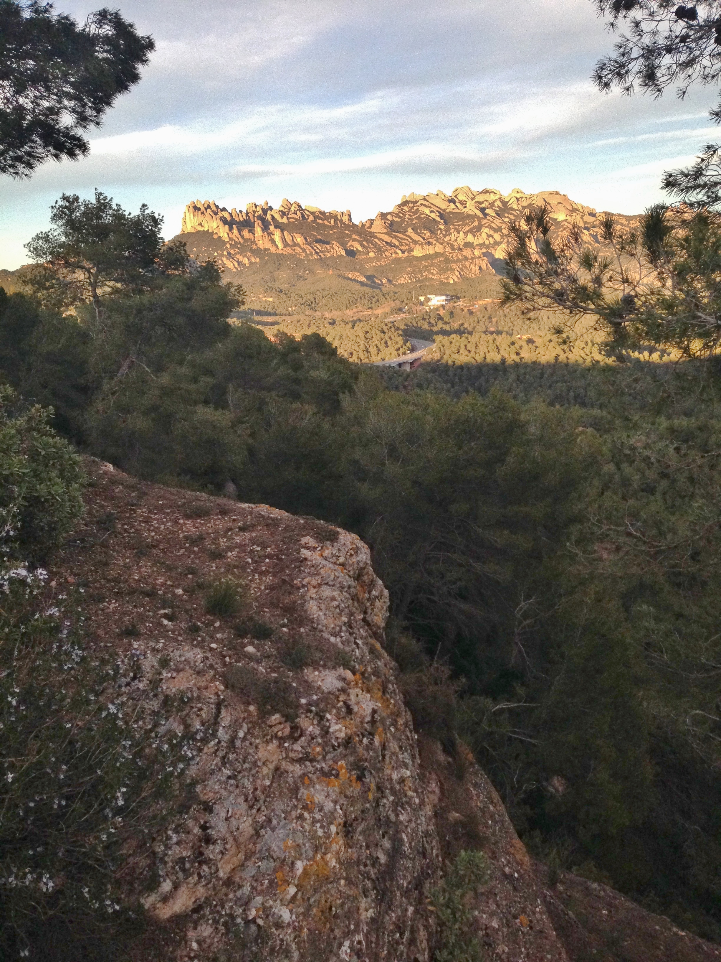 View of Natura2000 site "Roques Blanques" and Montserrat mountain This is a a photo of a natural area in Catalonia, Spain, with id: ES510166